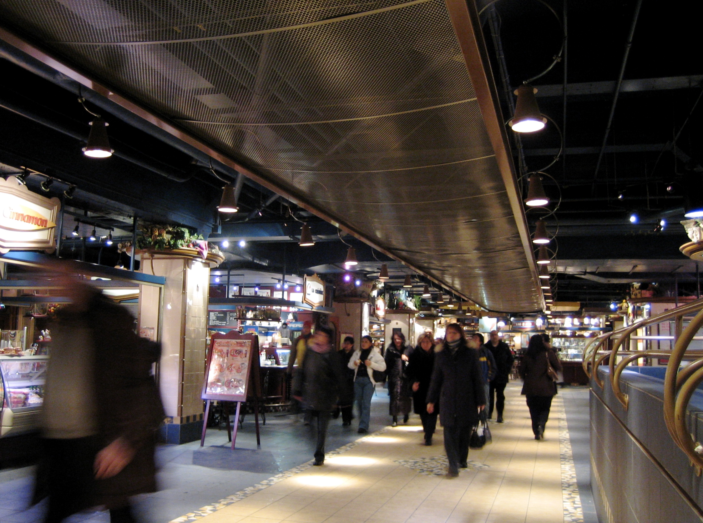 Halles de la gare, Central train station, Montreal Photo by uploader